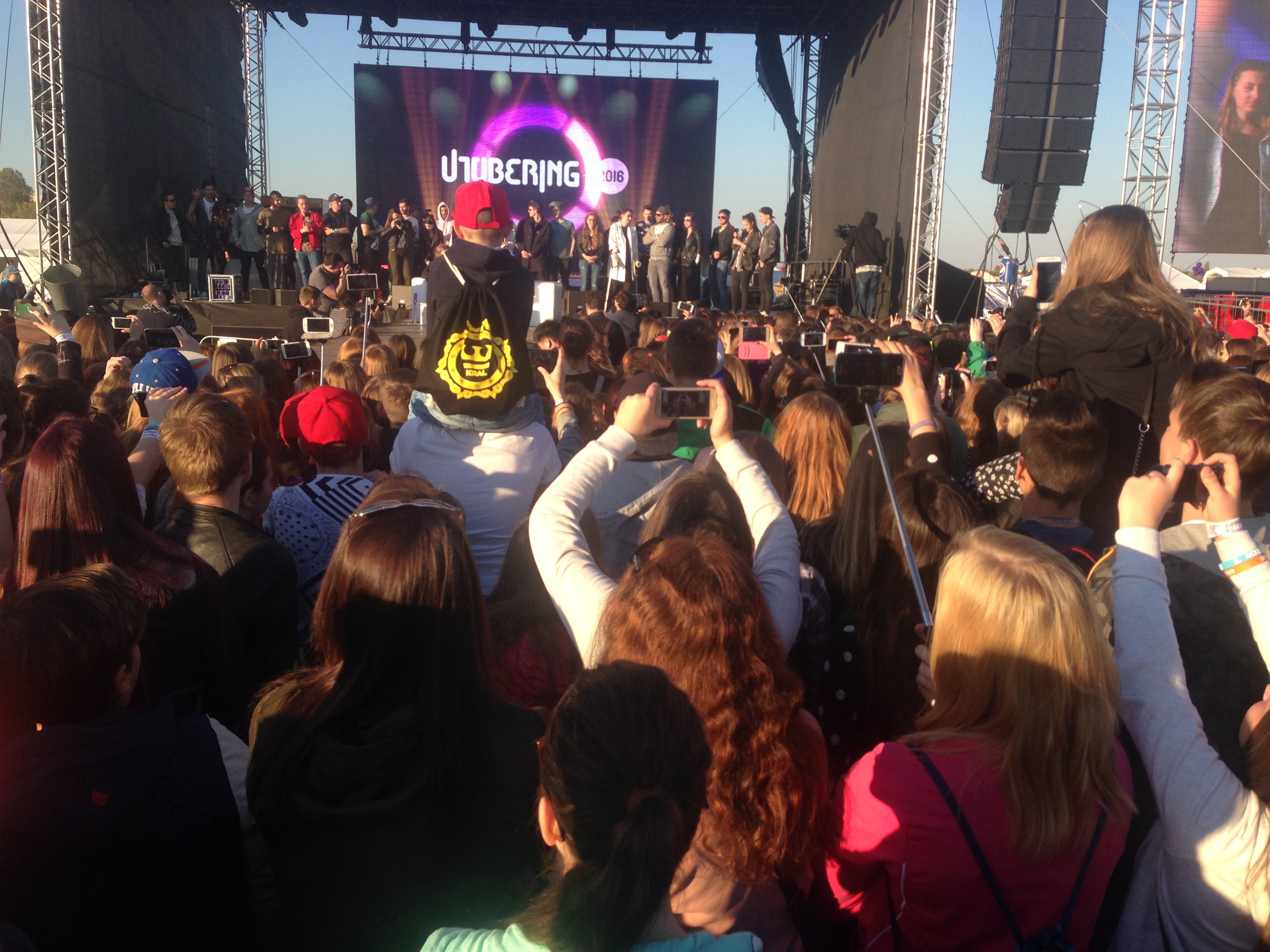 Czech YouTube themed festival Utubering 2016, Prague